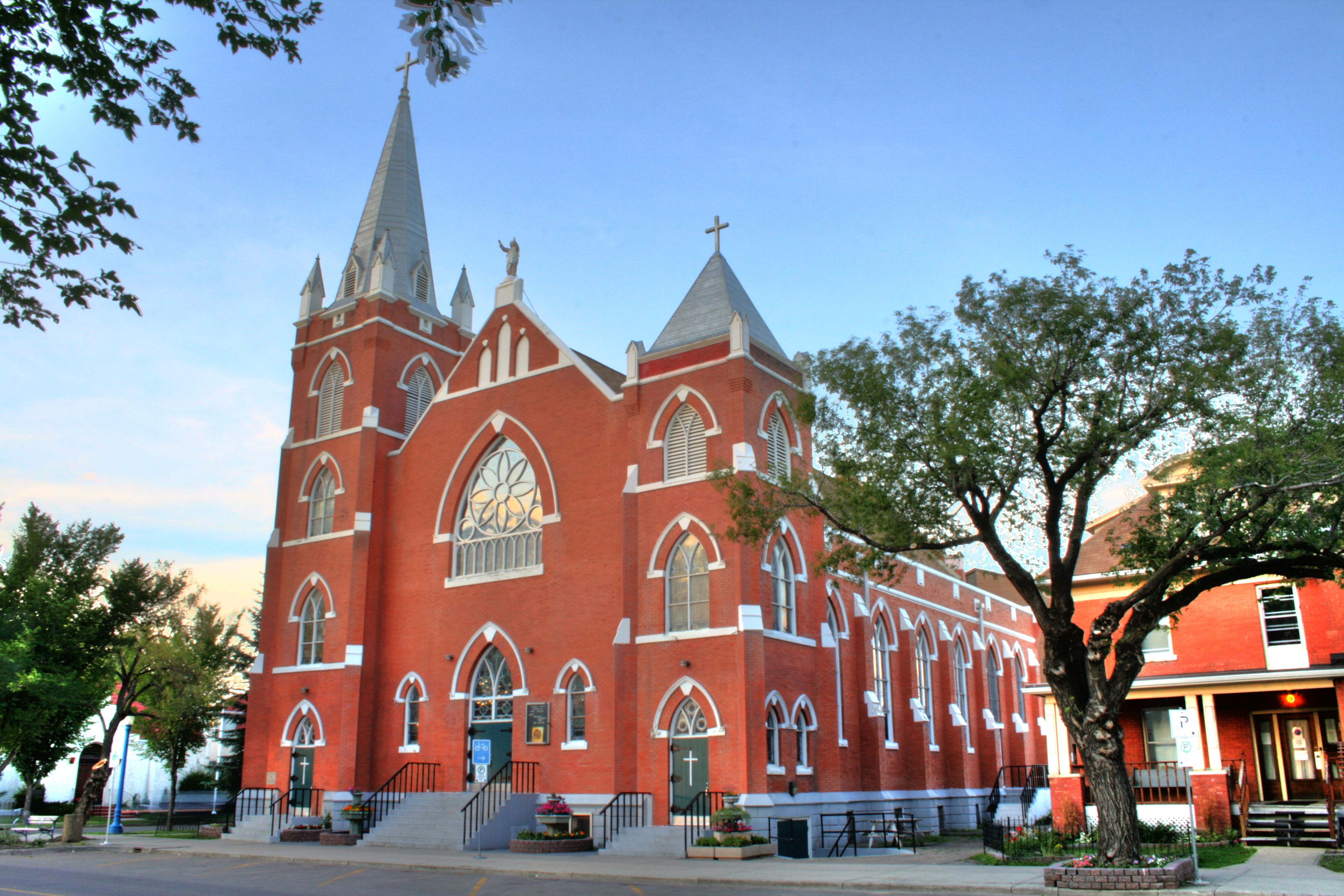 East face of the Sacred Heart Church, Edmonton, Alberta, Canada.